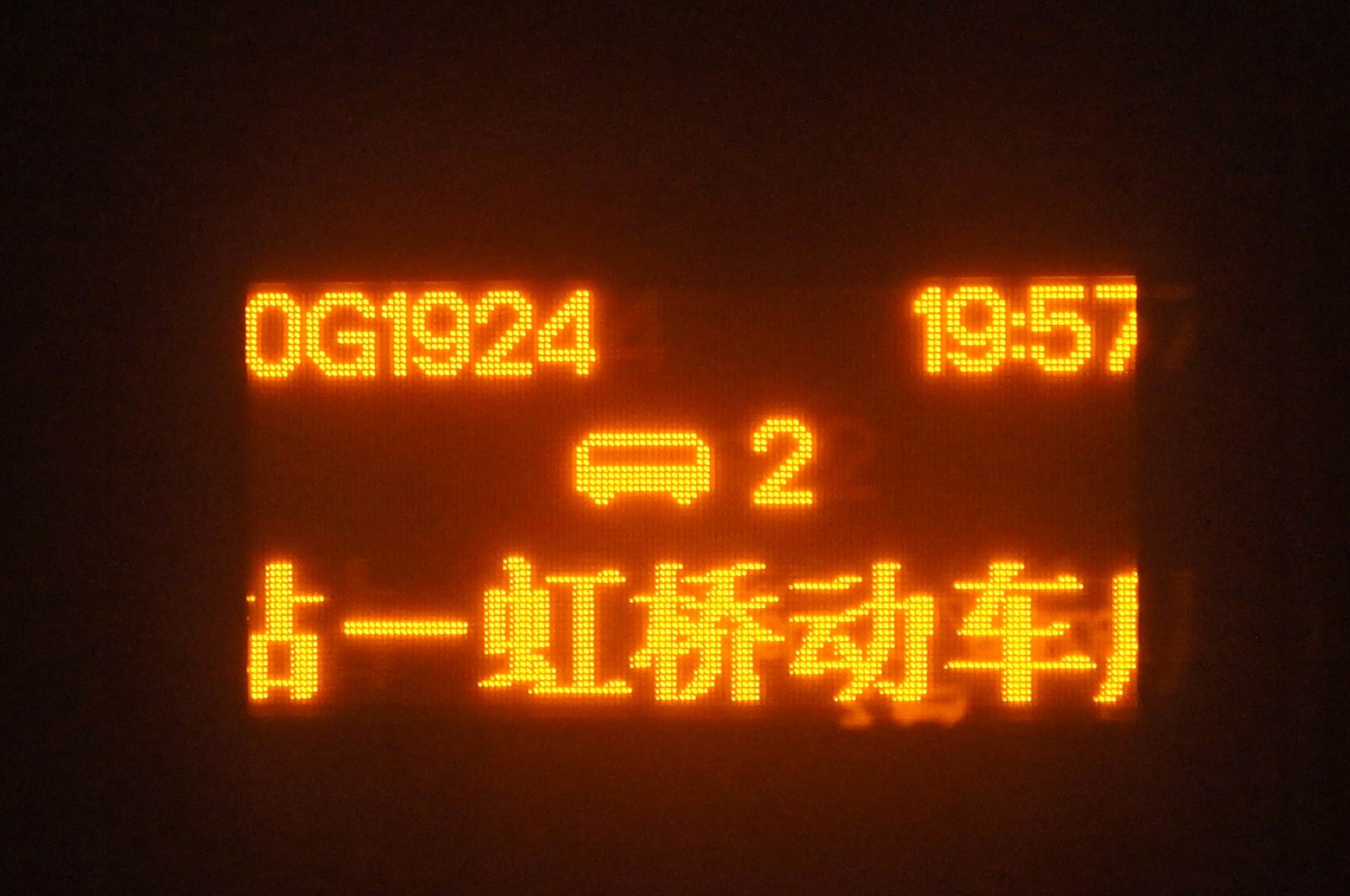 0G1924 info board in 201701, Xi'an and Zhengzhou-based EMUs seems present the non-public train no. on its info board